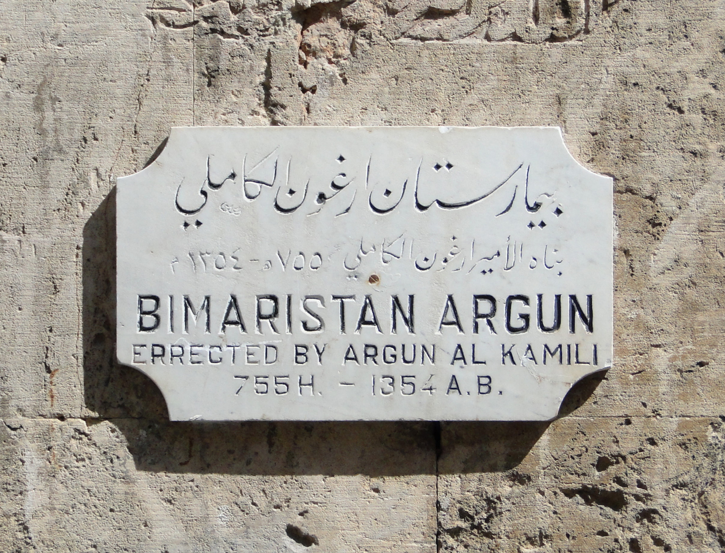 Plaque of Bimaristan Argun, Aleppo, Syria